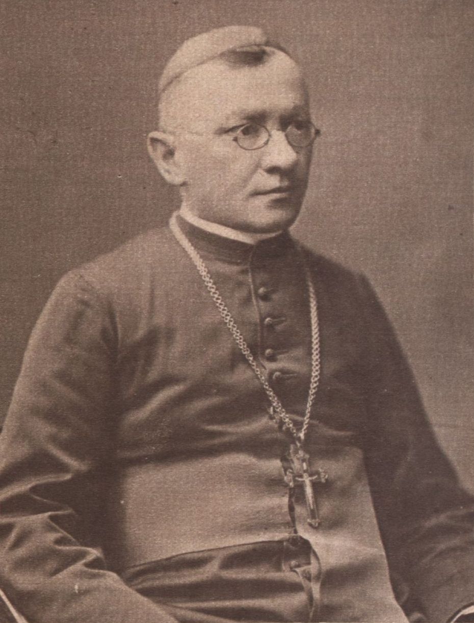 Antun Bauer (Anton Bauer; 1856–1937), Croatian archbishop